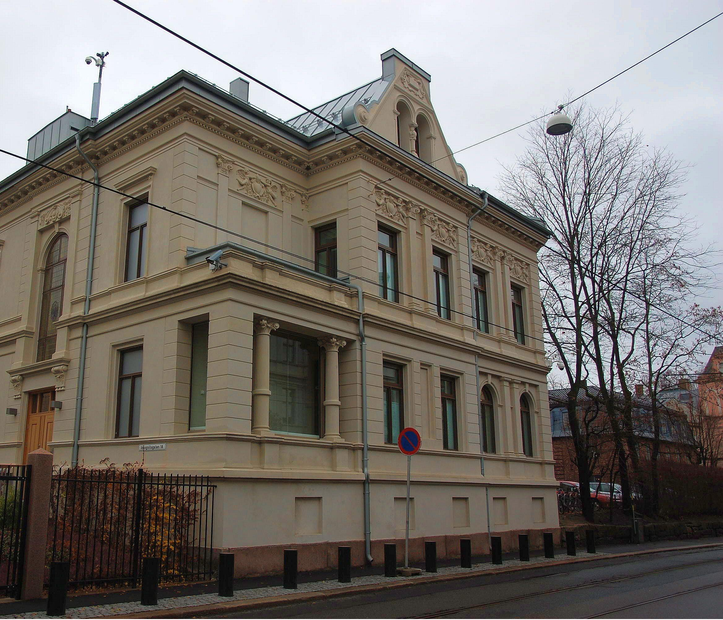 Inkognitogata 18 is the official Residence of the Prime Minister of Norway. It is located in Oslo the capital of Norway.